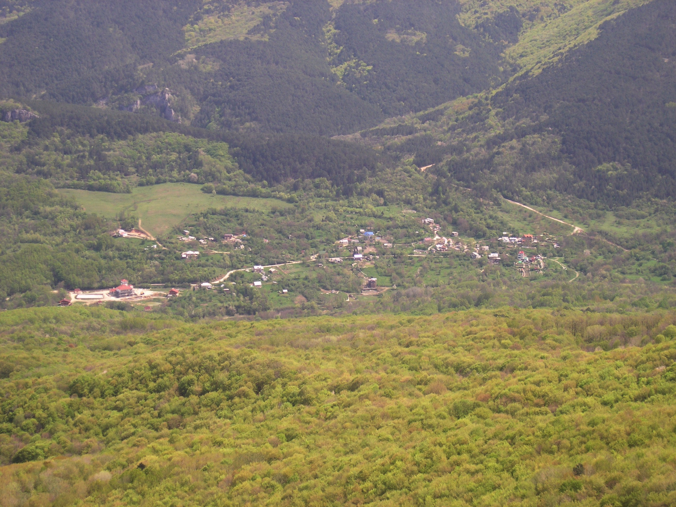 Village Mnogorechye, Bakhchisarai region, Crimea